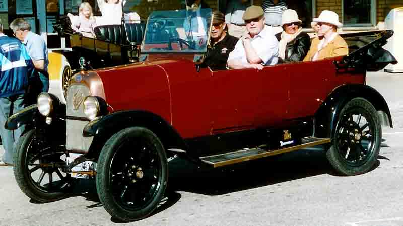 Fiat 501 Torpedo 1922